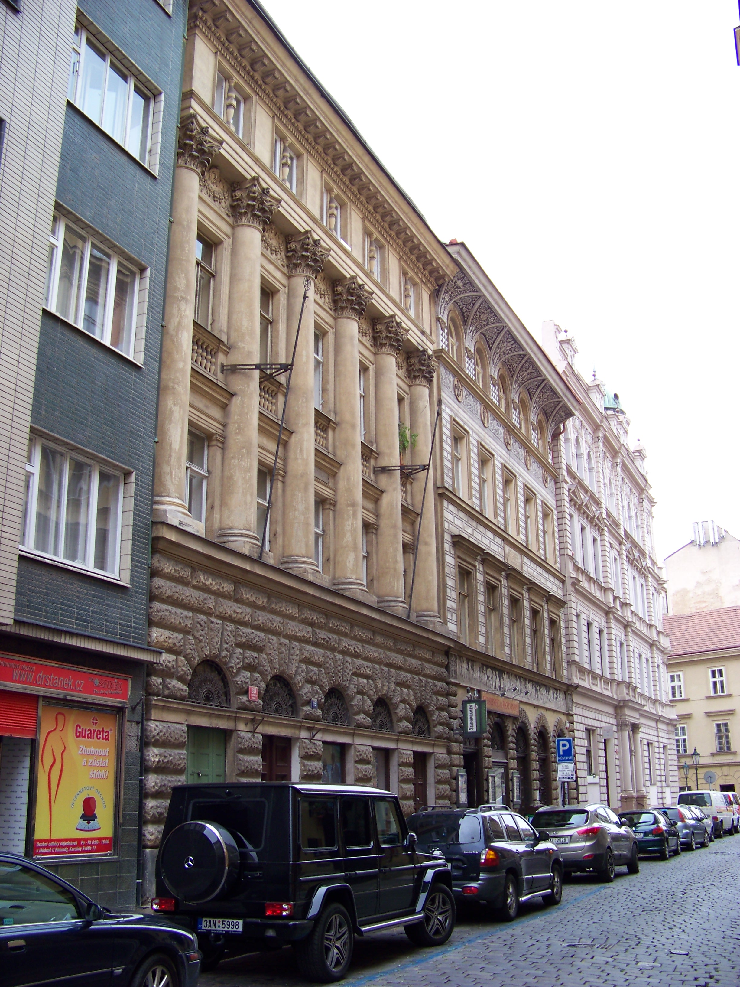 Prague-Staré Město. Karoliny Světlé 317/15, 1035/17, 318/19.